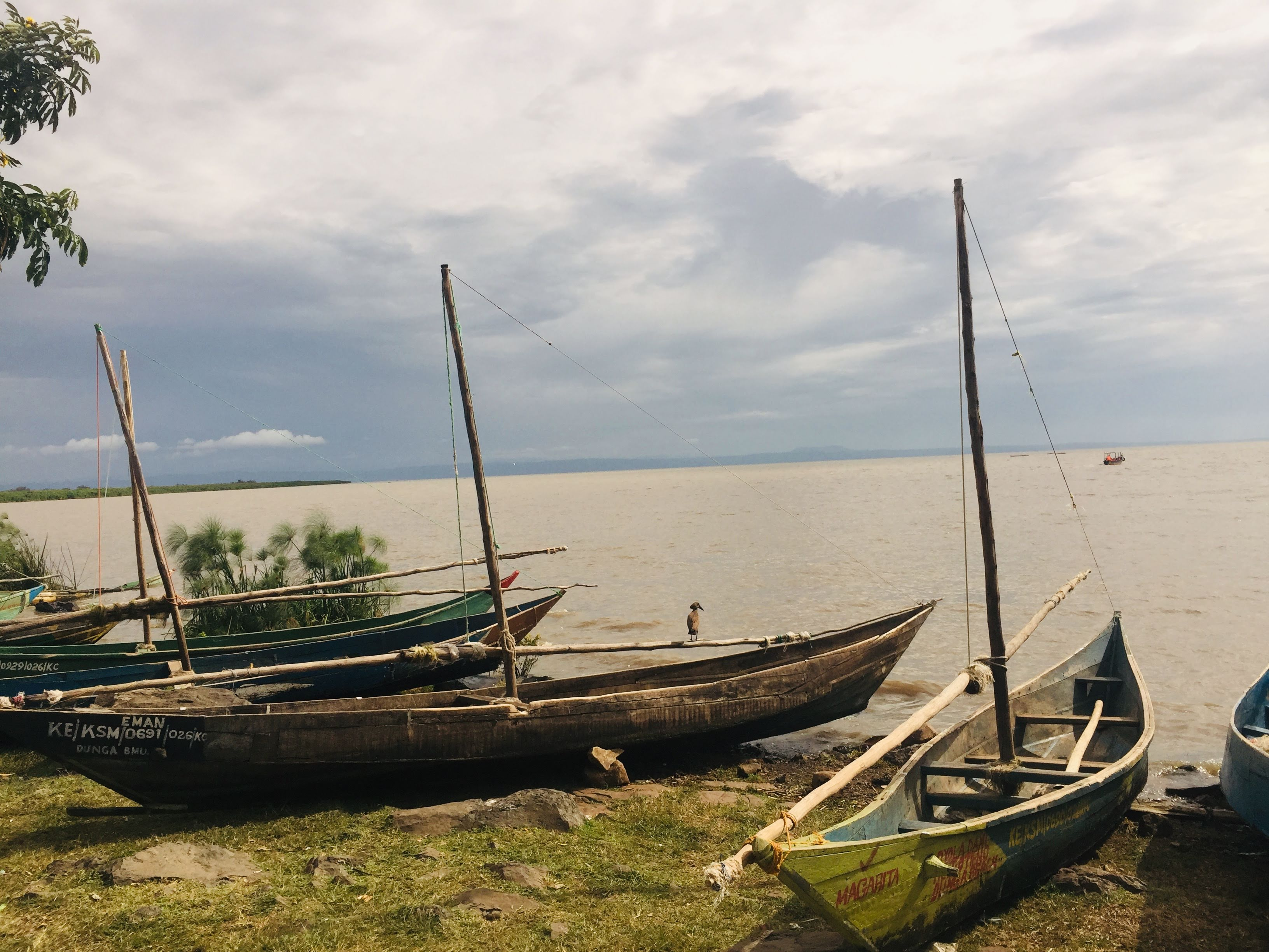 These are boats set at Dunga beach, this is a popular spot to eat fish. The fishermen get the fish from the lake and it is immediately prepared. This is an image with the theme "Africa on the Move or Transport" from: Kenya